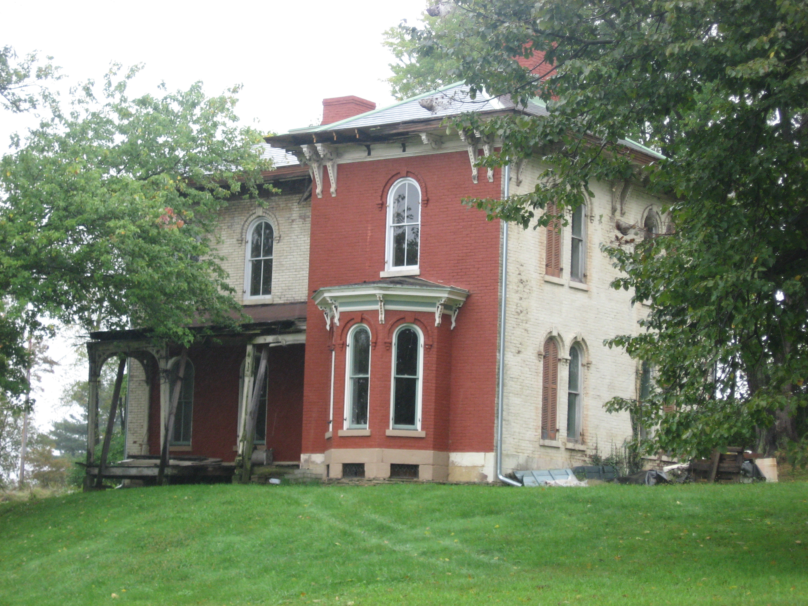 Front and western side of the John C. Reeves House, located at 100 Reeves Drive northeast of Wellsburg in Brooke County, West Virginia, United States. Built in 1870, it is listed on the National Register of Historic Places.